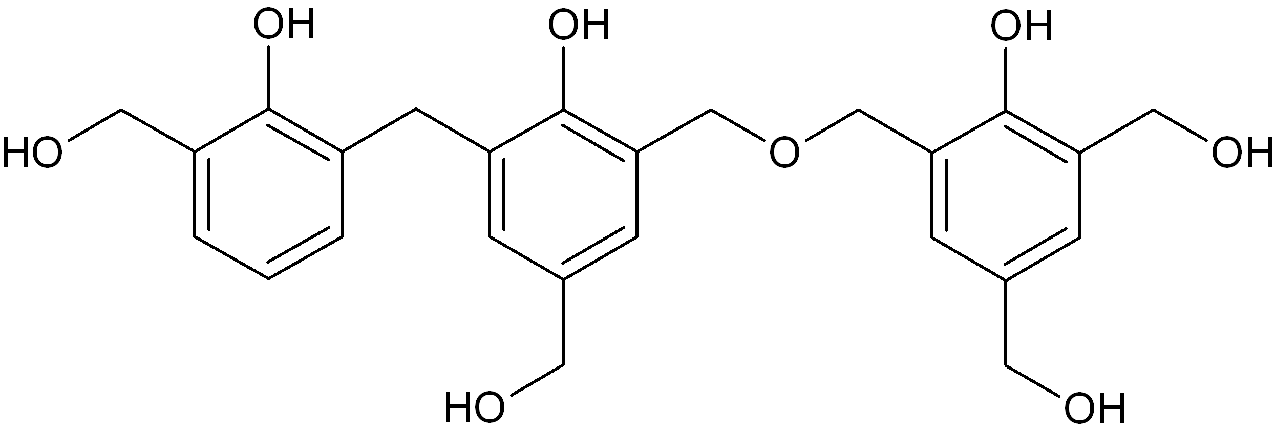 A resol